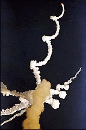 Destruction of the Conestoga rocket, 23 October 1995